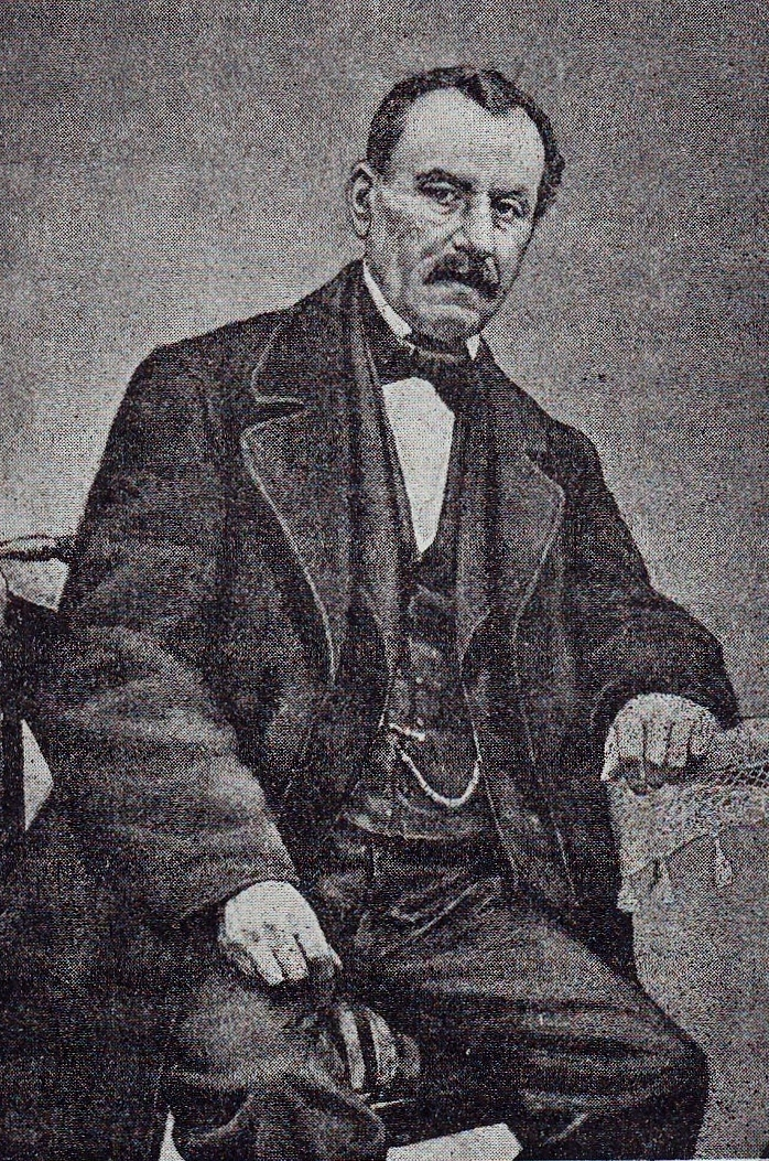 Nikola Borojević (1796-1872), Serbian poet. Taken from Istorija srpske književnosti (1906) by Jovan Grčić. Srpski (latinica): Nikola Borojević (1796-1872), srpski pesnik. Preuzeto iz Istorije srpske književnosti (1906) Jovana Grčića.